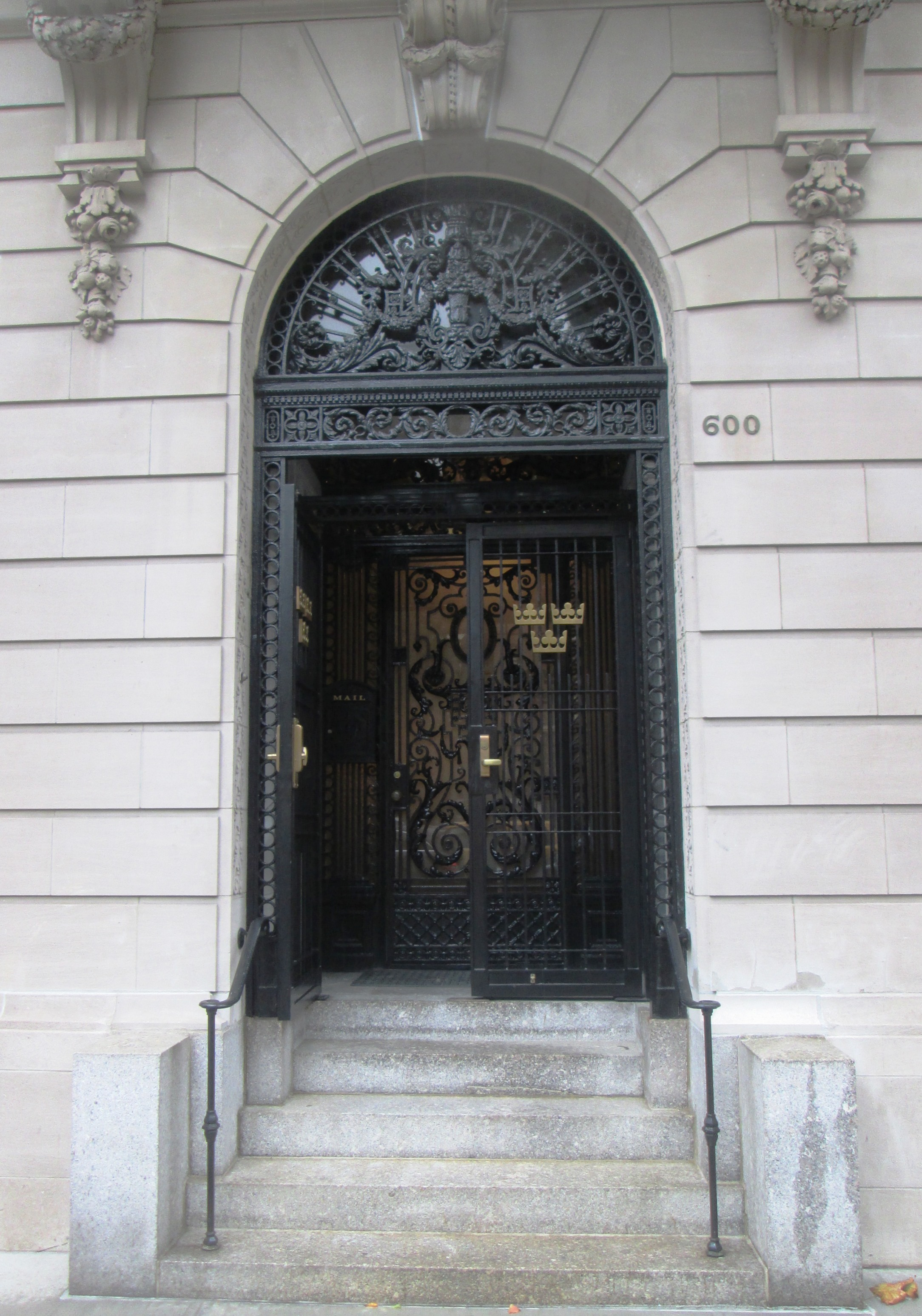 The Jonathan Buckley House at 600 Park Avenue at the corner of East 64th Street in the Lenox Hill neighborhood of Manhattan, New York City was built in 1911 and was designed by James Gamble Rogers as a residence in the English Renaissance Revival style. The building, which is now the Swedish Consulate to the United Nations, was restored by Rothzeid Kaiserman Thomson & Bree. It is located in the Upper East Side Historic District. (Source: AIA Guide to NYC (5th ed.))